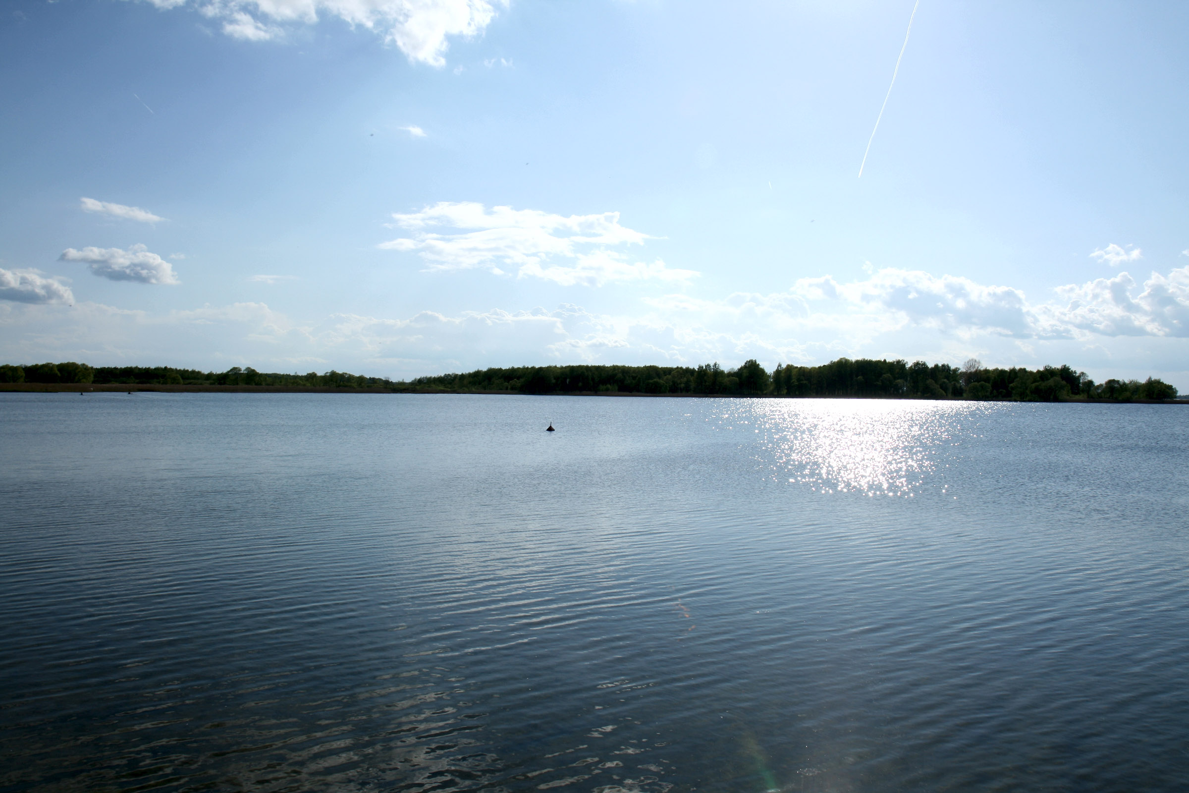 Miastra lake from the side of Miadzieł, Belarus.